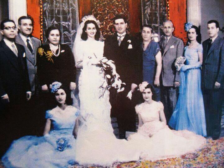 Renee dangoor Marrige